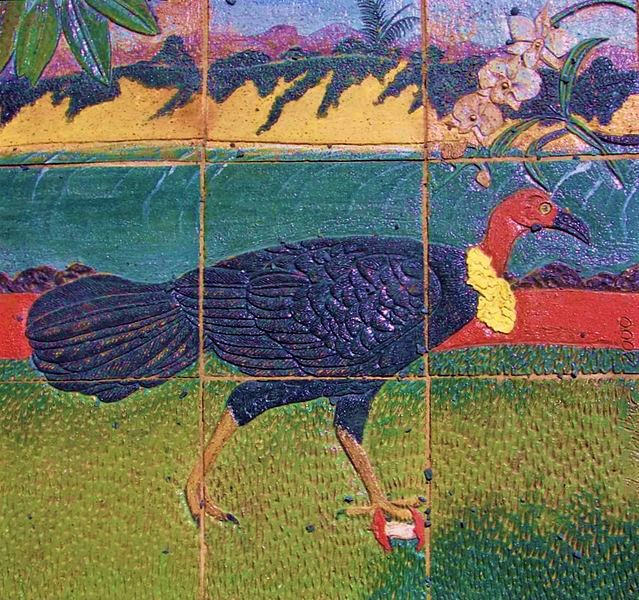 One of the many decorative and informative tiles on a public monument to Aboriginal culture and history. It is known as the Milbi Wall (or "Story Wall") in Cooktown, Queensland, Australia.